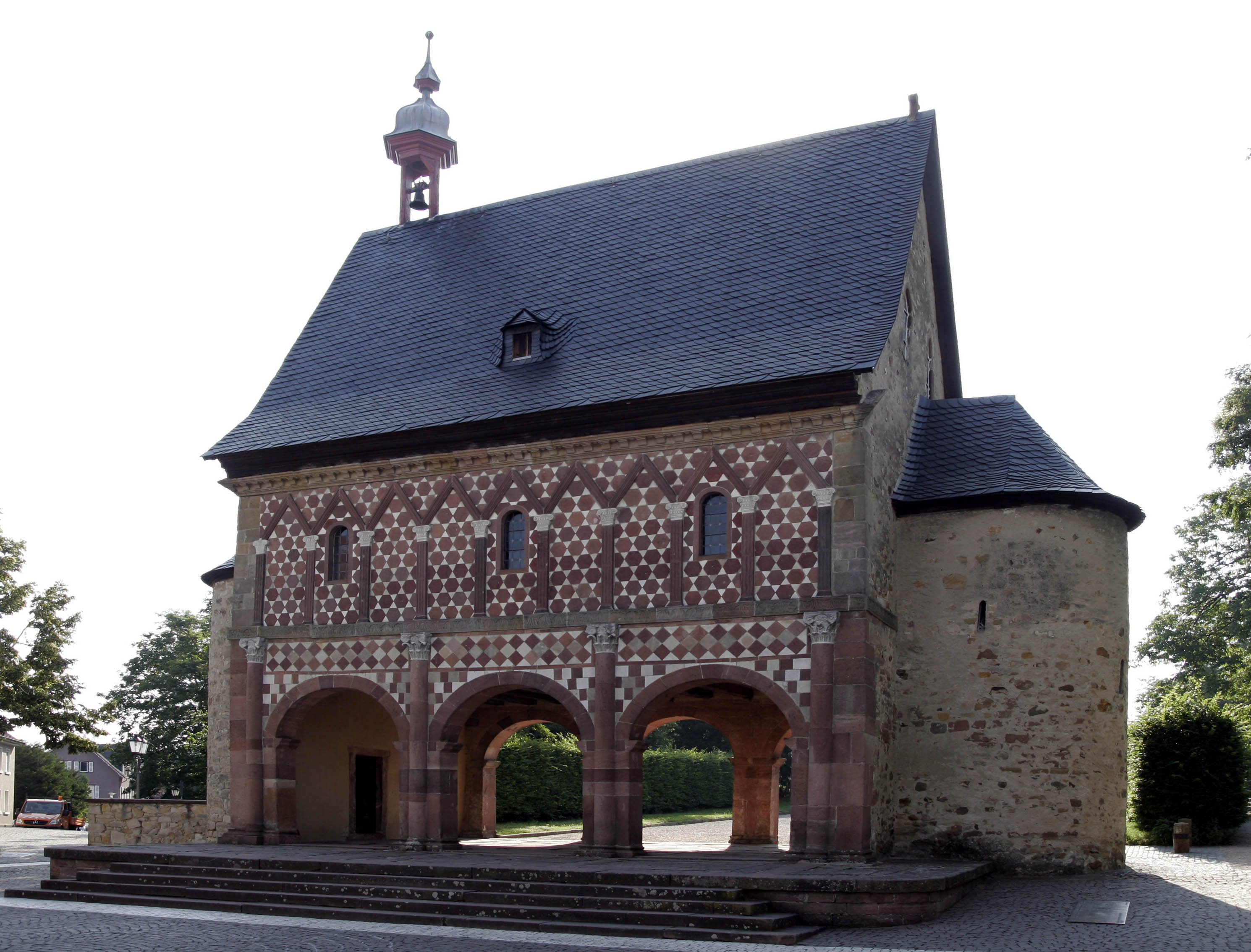 The Königshalle (Kingshall) of Lorsch Abbey.